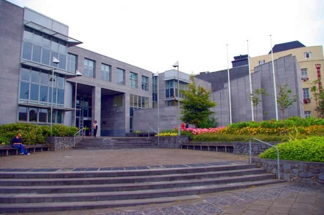 Galway County Hall / Áras Chontae na Gaillimhe Outside the centre of county administration on the corner of Prospect Hill and Bóthar na mBan, a few local government workers enjoy their lunch break in the rather minimal gardens.